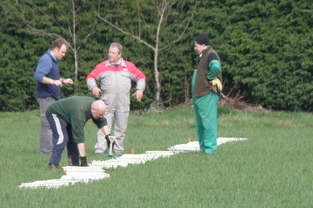 Four men and their dog went to calibrate their spreader Doesn't quite rhyme like the song but the activity these men are engaged in is important. They are assessing a tray test for calibrating the spread pattern of a fertiliser spreader. A line of shallow trays are spread across the working width of a fertiliser spreader (usually 24m) The operator drives through the line of trays with the machine working. The trays are collected and the contents of each are tipped into a measure which will show the spread pattern density, depending on the type of machine being used. Adjustments to the settings can then be made if required. The basics are that fertiliser is very expensive and needs to be applied correctly without over or under dosing. There is also a legal requirement to prevent pollution of watercourses adjacent to field edges.